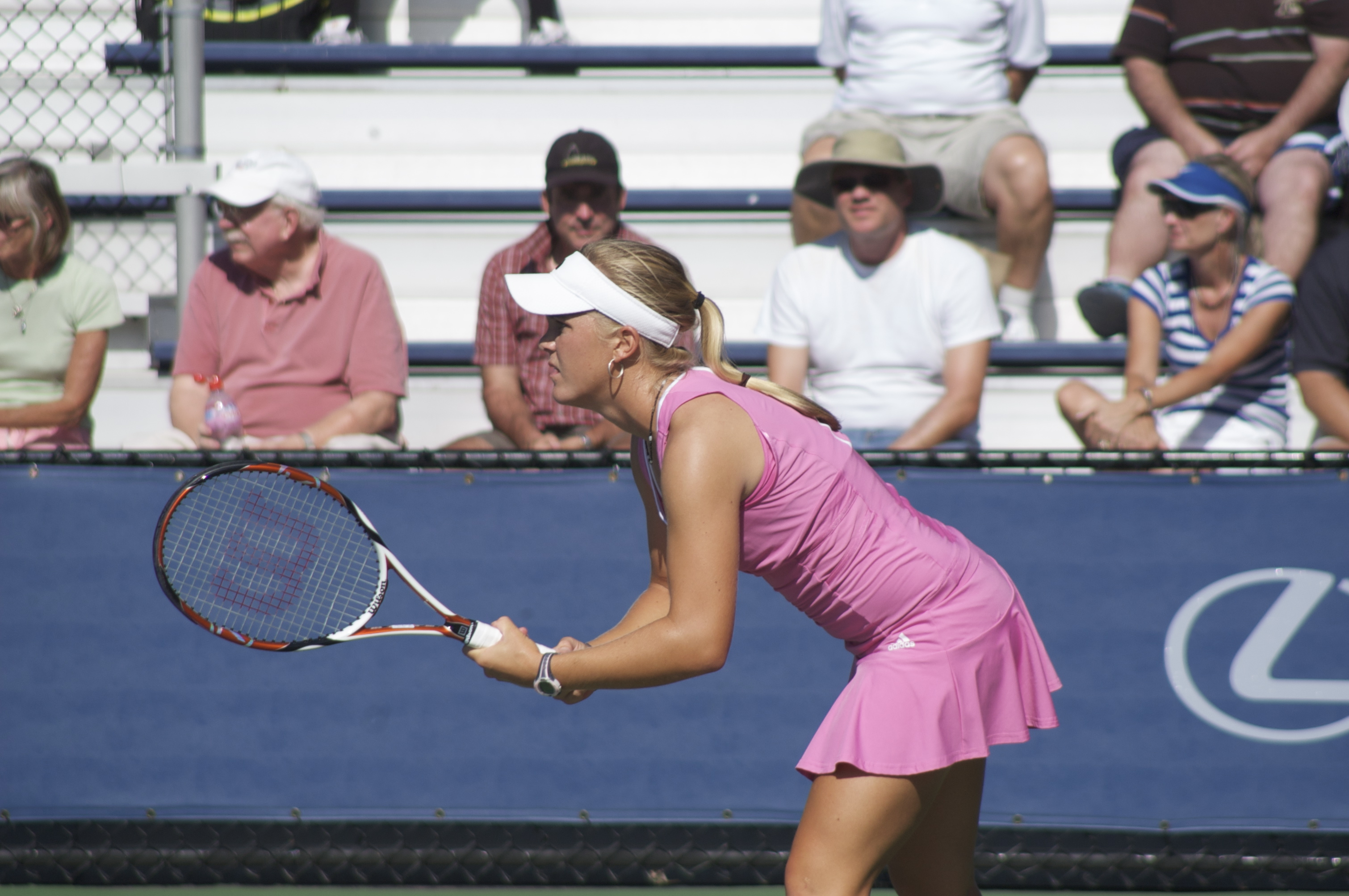 Melanie Oudin at the 2008 U.S. Open (tennis)